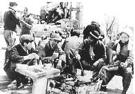 still photo from Dokkoi ikiteru (1951)}